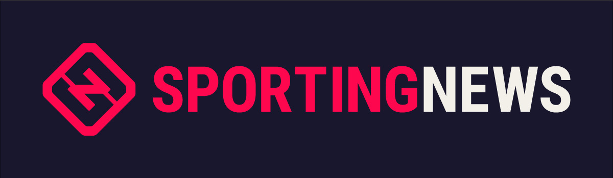 Official SN lockup with SPORTING NEWS text